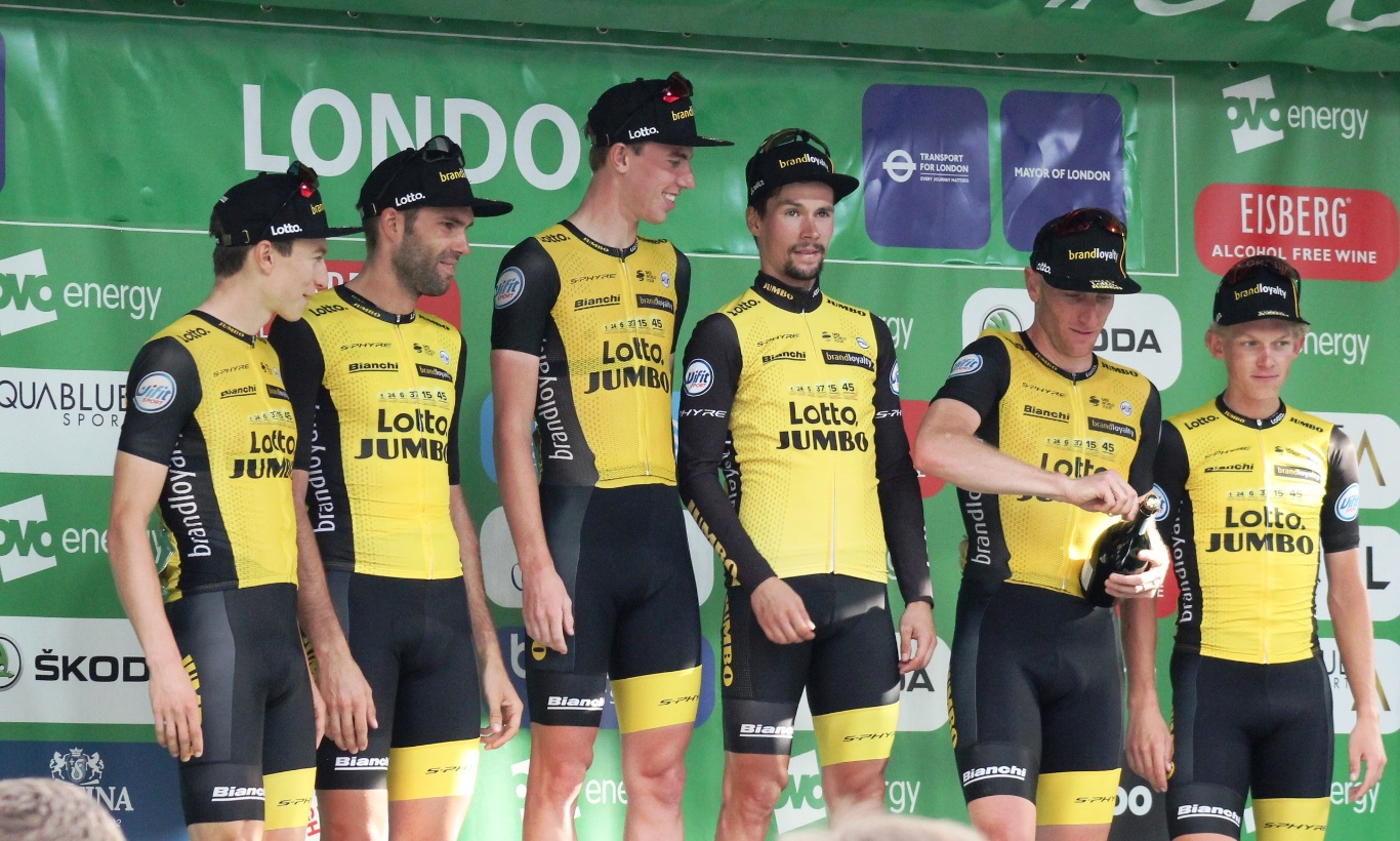 Team Lotto NL-Jumbo, the best team in the 2018 Tour of Britain. Their riders were Primož Roglič (whoc ame third in the individual general classification), Koen Bouwman, Pascal Eenkhoorn, Jos van Emden, Neilson Powless and Maarten Wynants.